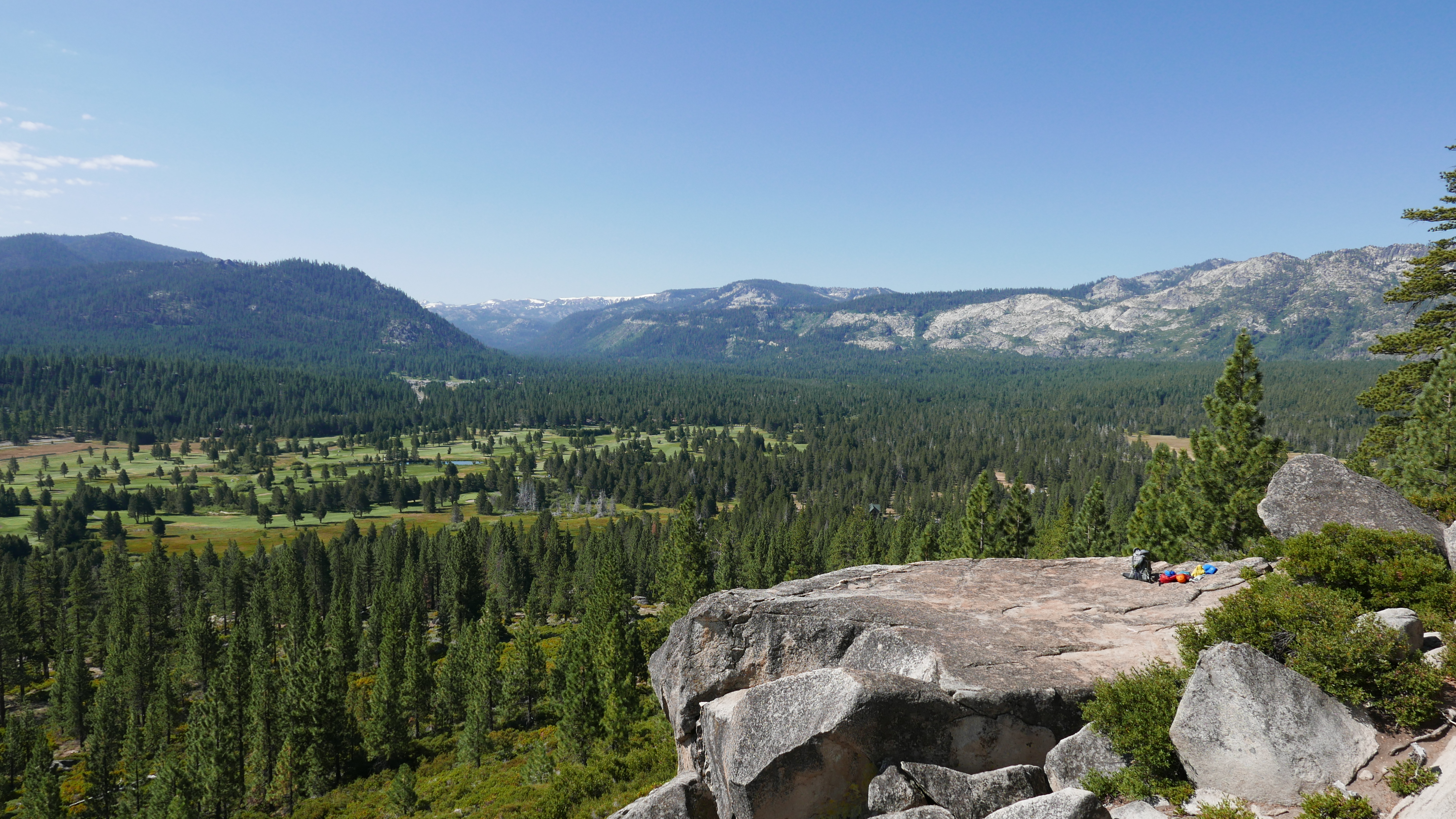 The view from "lunch rock" at Pie Shop climbing area in Meyers outside South Lake Tahoe, California.